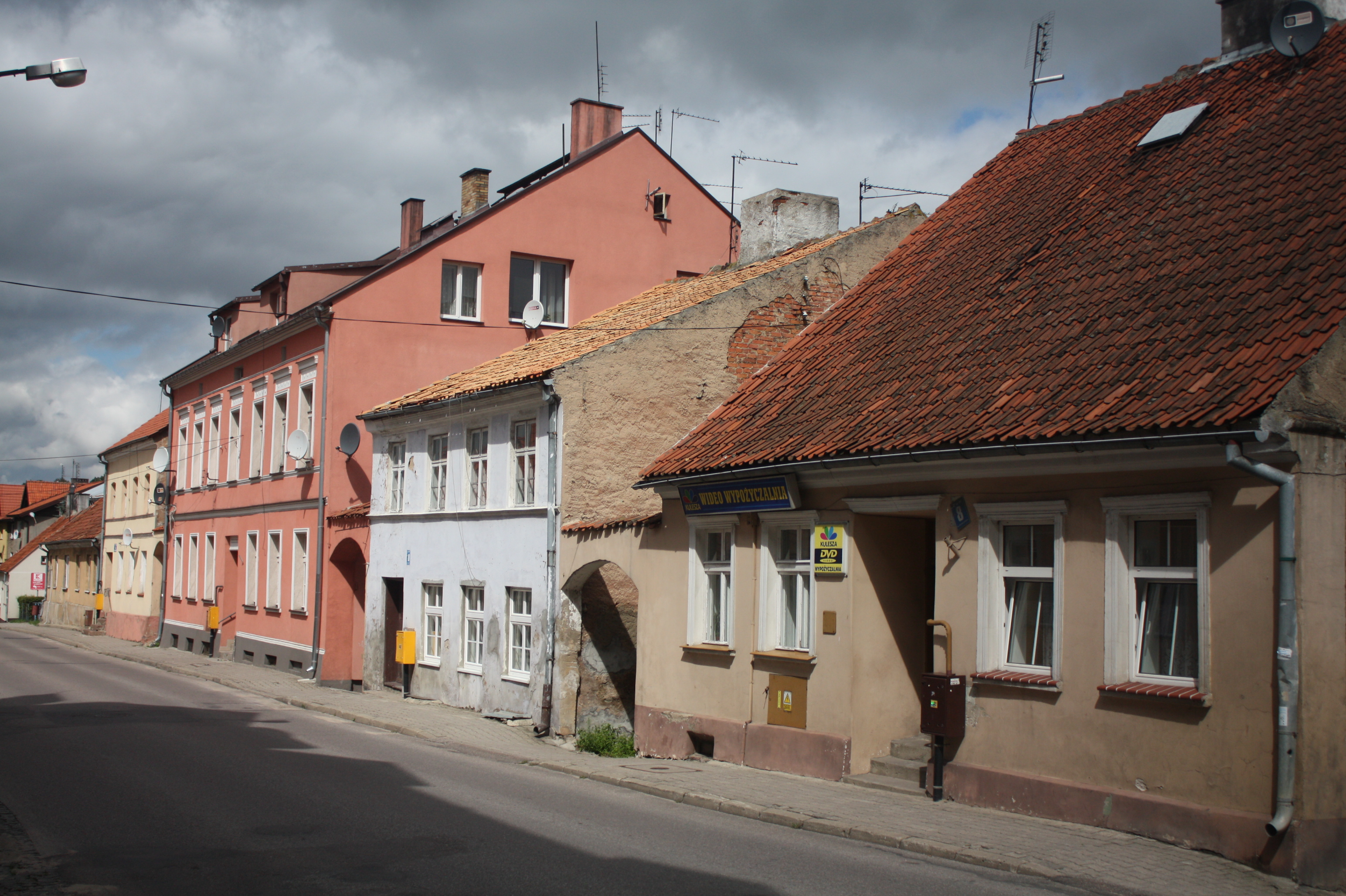 This photo of Warmian-Masurian Voivodeship was taken during Wikiexpedition 2012 set up by Wikimedia Polska Association. You can see all photographs in category Wikiekspedycja 2012. The making of this document was supported by Wikimedia Polska.